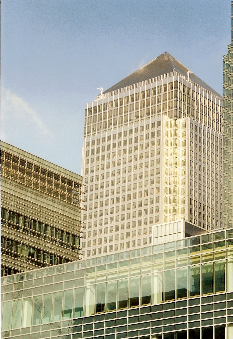 Picture taken by myself in february 2005, showing the top of the Canary Wharf Tower (1 Canada Suqare)